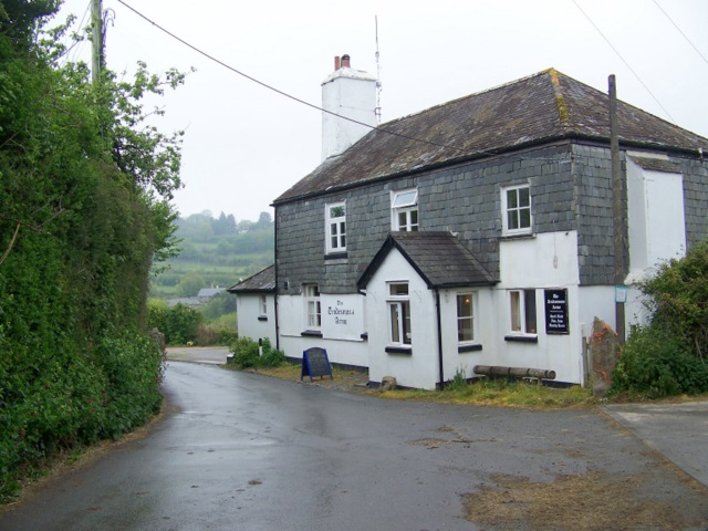 The Tradesmans Arms, Scorriton A traditional style pub with a lively atmosphere and the centre of village activities.